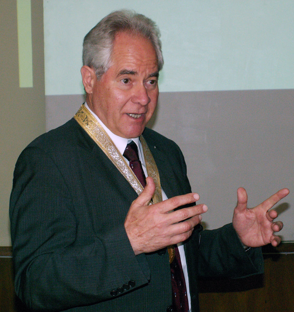 Dr.Eberhard Neumann - the founder of the Electroporation method - visiting Bulgarian Academy of Sciences for receiving the Doctor Honoris Causa degree